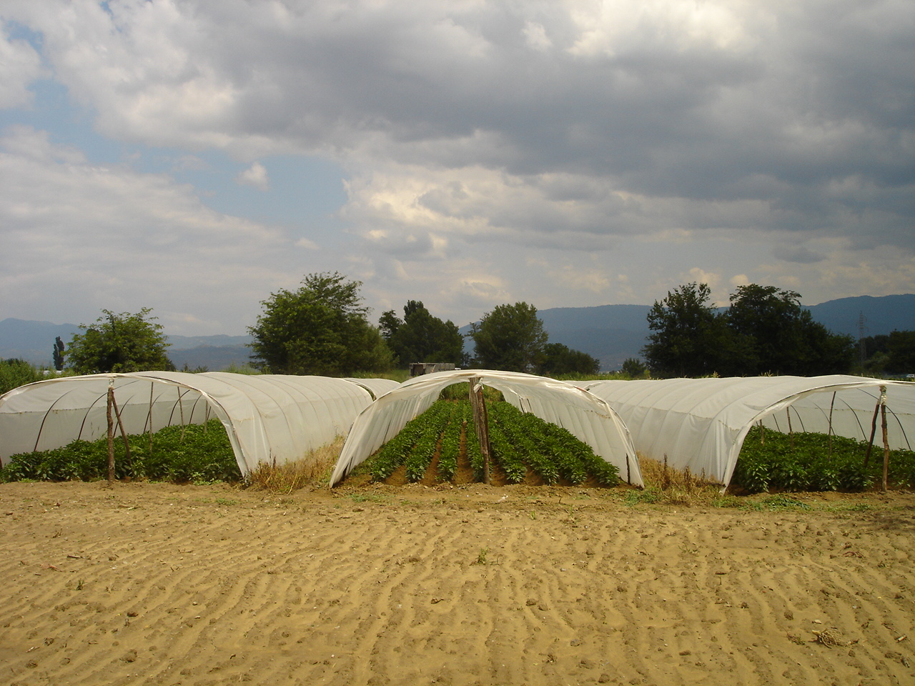 Greenhouses in Strumica region, Macedonia